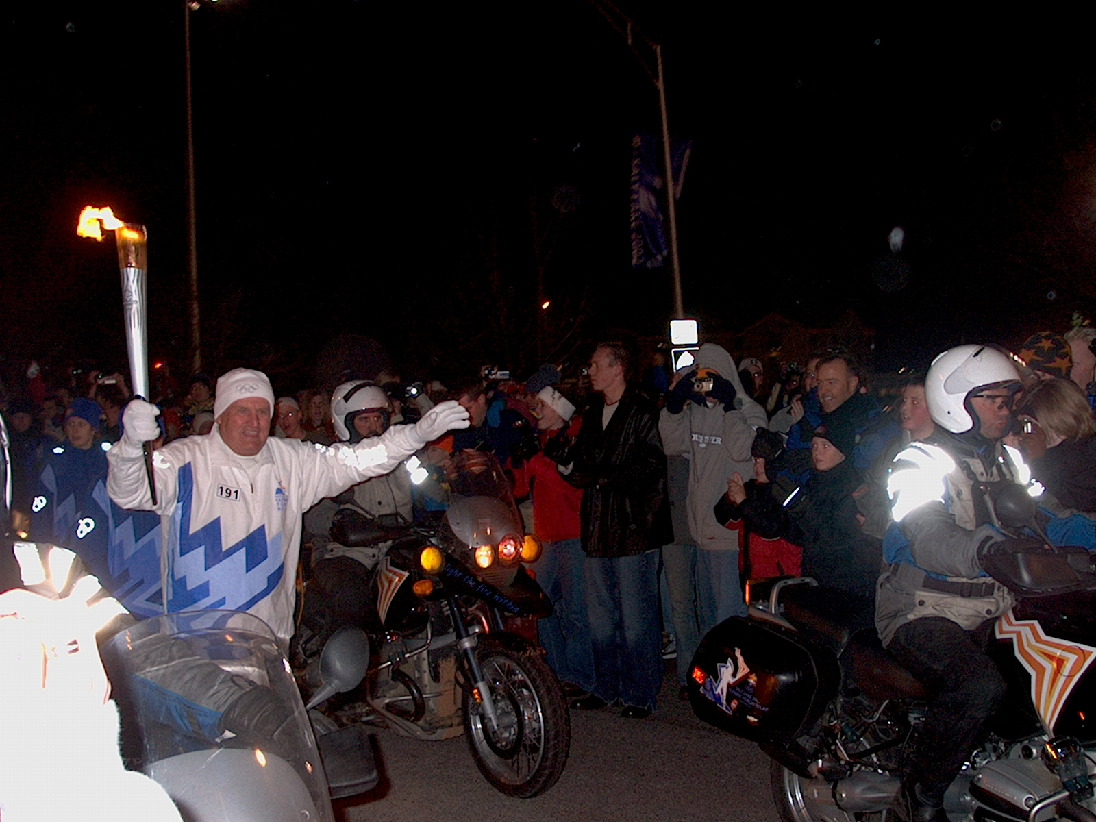 LaVell Edwards carrying the Olympic Torch in Provo, Utah